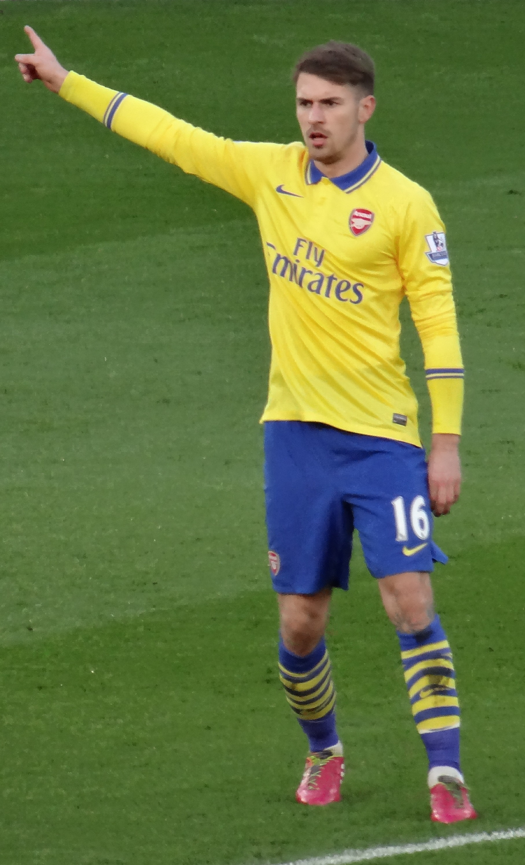 Aaron Ramsey during a Premier League match against Cardiff City on 30 November 2013.